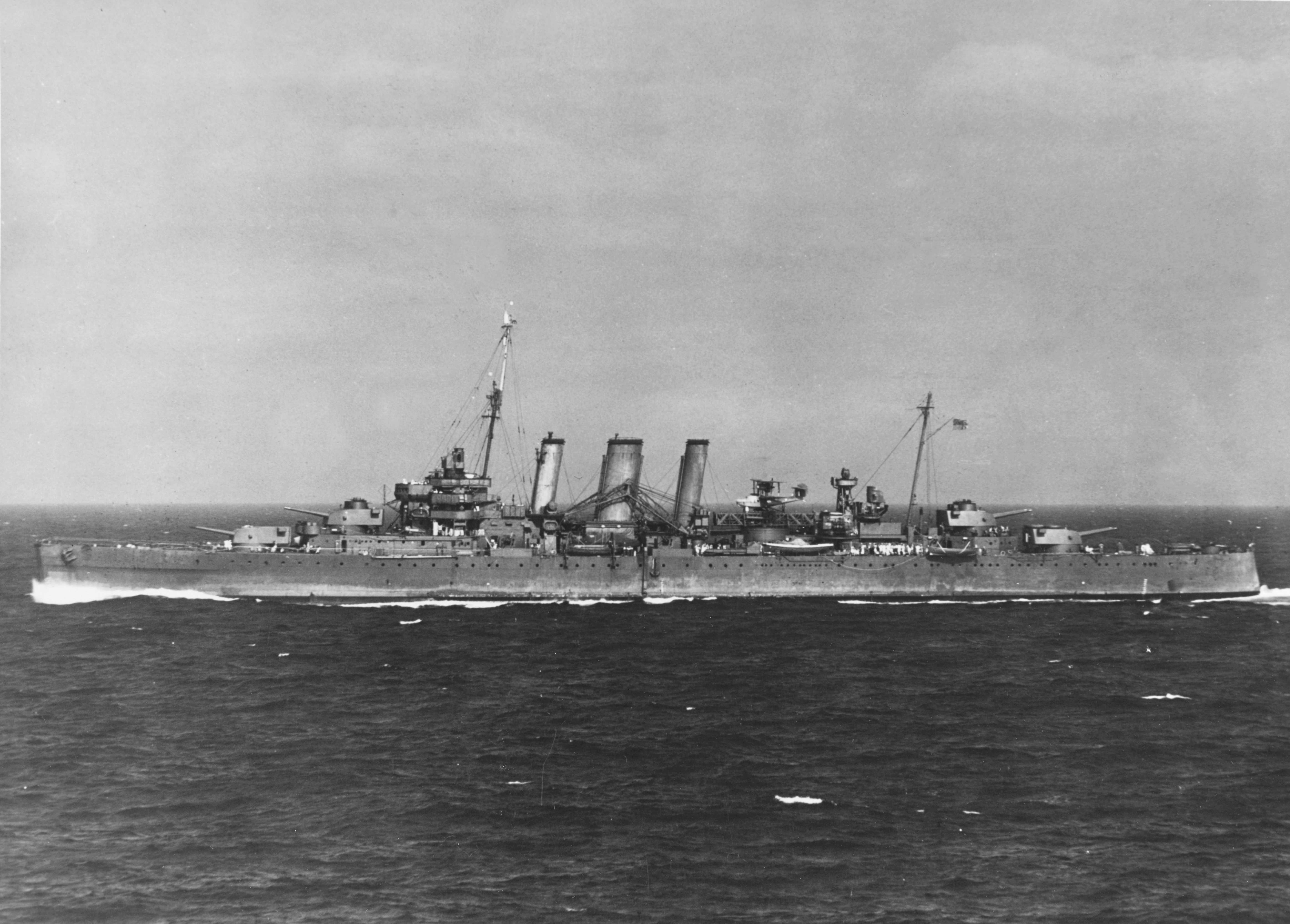 The Royal Australian Navy heavy cruiser HMAS Australia (D84) at sea during operations in the vicinity of the Solomon Islands, 31 August 1942.